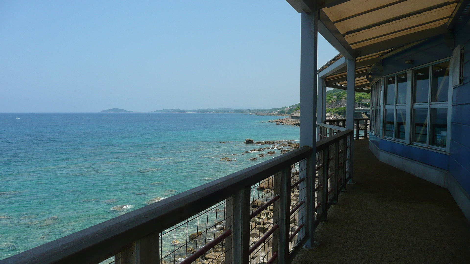 The View of East China Sea from Michinoeki Akune (Akune City, Kagoshima, Japan - National Route 3)